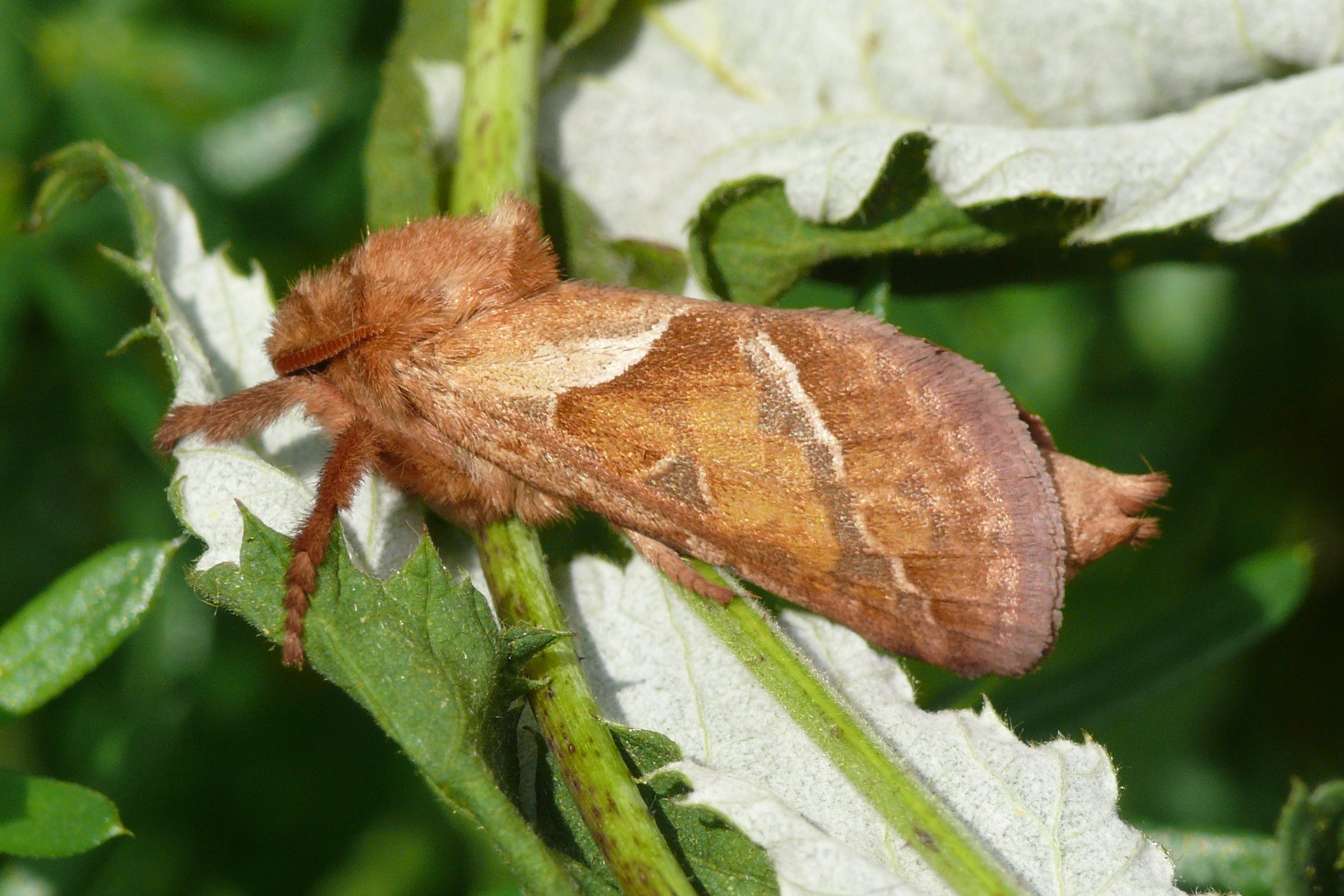 Female Orange Swift' (Triodia sylvina). Pupa found under Verbascum thapsus (Great or Common Mullein). Landkreis Ebersberg, Bavaria, Germany